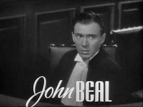 Screenshot from the trailer for Madame X (1937 film). Trailers from before 1963 are in the public domain.